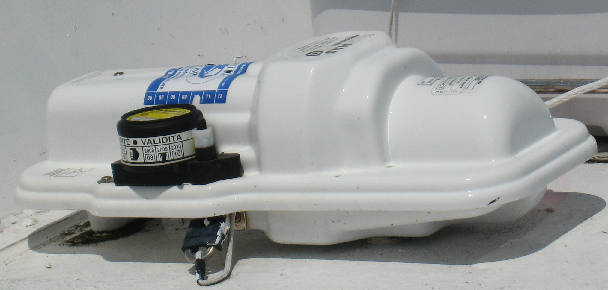 Epirb box on a fishing boat